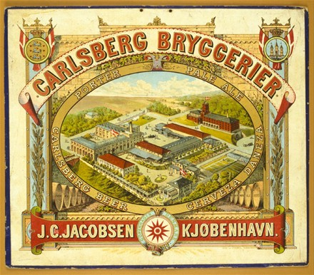 The Carlsberg Brewery's first export advertisment from 1870 showing the Carlsberg brewery site in the Valby district of Copenhagen, Denmark